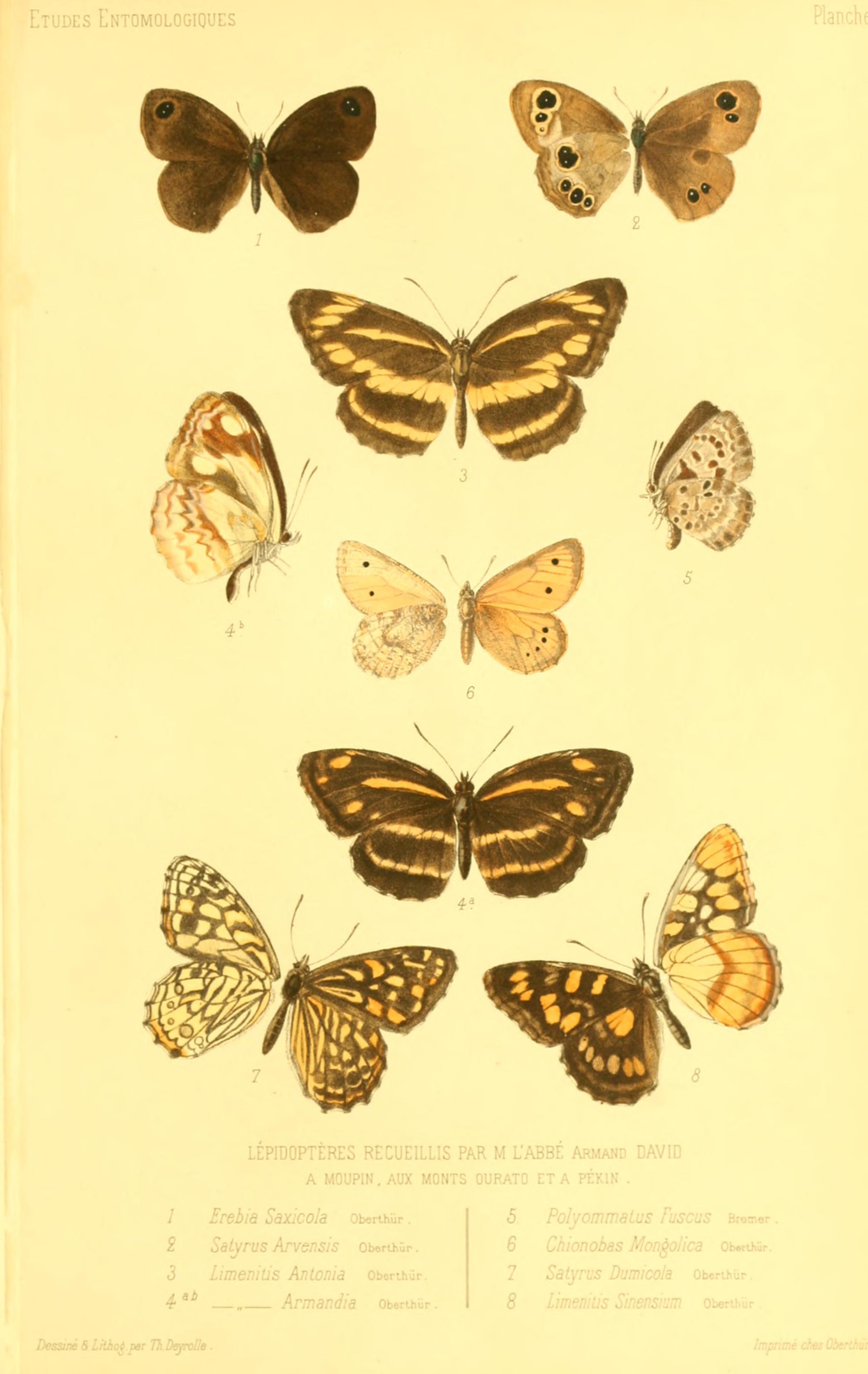 Butterflies collected at Muping (Baoxing County, Sichuan), Holan Mountains and Beijing by Père Armand David. 3: Broad-banded Sailer. Erebia Saxicola Oberthür = Loxerebia saxicola (Oberthür, 1876), upperside ("Monts Ourato") Satyrus Arvensis Oberthür = Aphantopus arvensis arvensis (Oberthür, 1876), left: underside, right: upperside ("Moupin") Limenitis Antonia Oberthür = Neptis sankara antonia (Oberthür, 1876), upperside ("Moupin") [Limenitis] Armandia Oberthür = Neptis armandia armandia (Oberthür, 1876) (a: upperside, b: underside) Polyommatus Fuscus Bremer = Niphanda fusca fusca (Bremer & Grey, 1853), ♀, underside ("Moupin") Chionobas Mongolica Oberthür = Oeneis mongolica mongolica (Oberthür, 1876), left: underside, right: upperside ("Mongolie orientale") Satyrus Dumicola Oberthür = Rhaphicera dumicola (Oberthür, 1876), left: underside, right: upperside ("Moupin") Limenitis Sinensium Oberthür = Patsuia sinensium sinensium (Oberthür, 1876), left: upperside, right: underside ("Pékin")